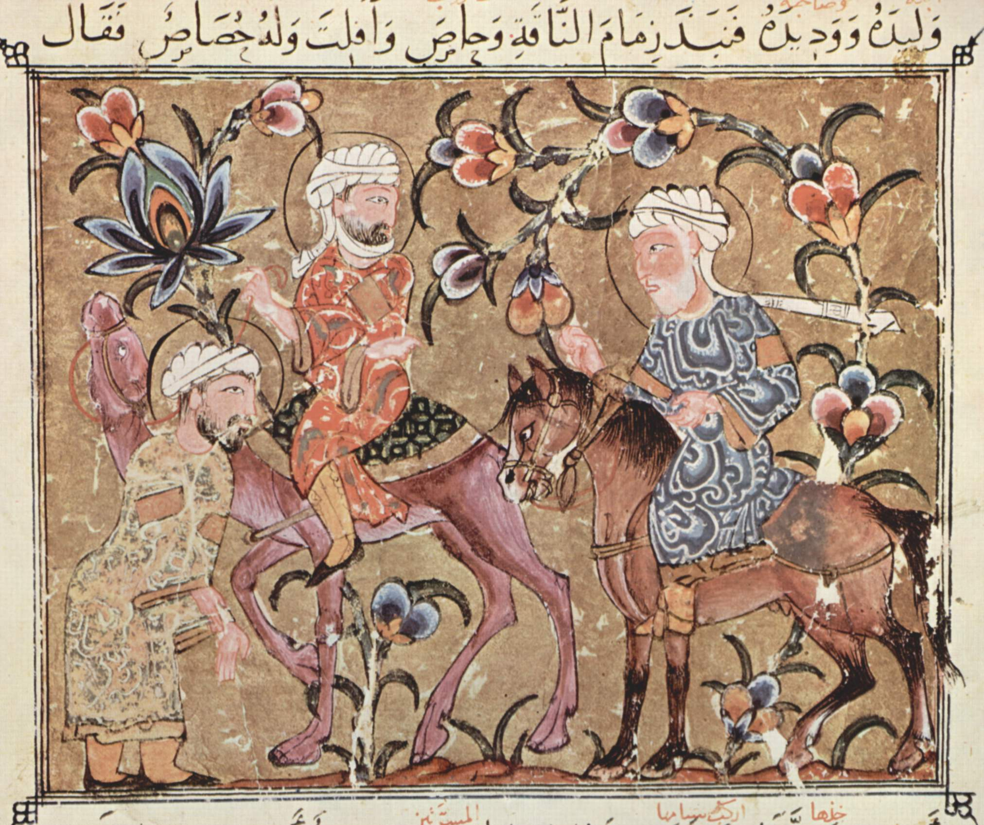 "Amongst the most popular works of Arabic belles-lettres, the Maqamat (‘Assemblies’) are a collection of amusing stories told by the merchant al-Harith about a peripatetic rogue named Abu Zaid. In most cases, the tales are just a pretext to display elaborate Arabic constructions and puns, which is what made this work so famous in its day. The illustration shown here accompanies the 27th maqama, which recounts the loss and recapture of a camel by al-Harith. The scene depicts the moment in which al-Harith faces the Bedouin who took his camel and Abu Zaid, himself guilty of having stolen the horse he is riding." Description from the Yousef Jameel centre for Islamic and Asian Art